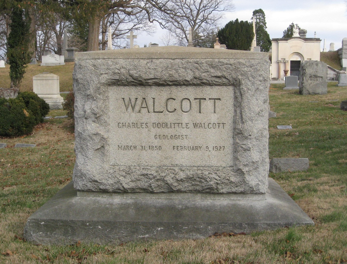 Photo of gravesite of Charles Walcott Gibbs, the geologist and Smithsonian administrator